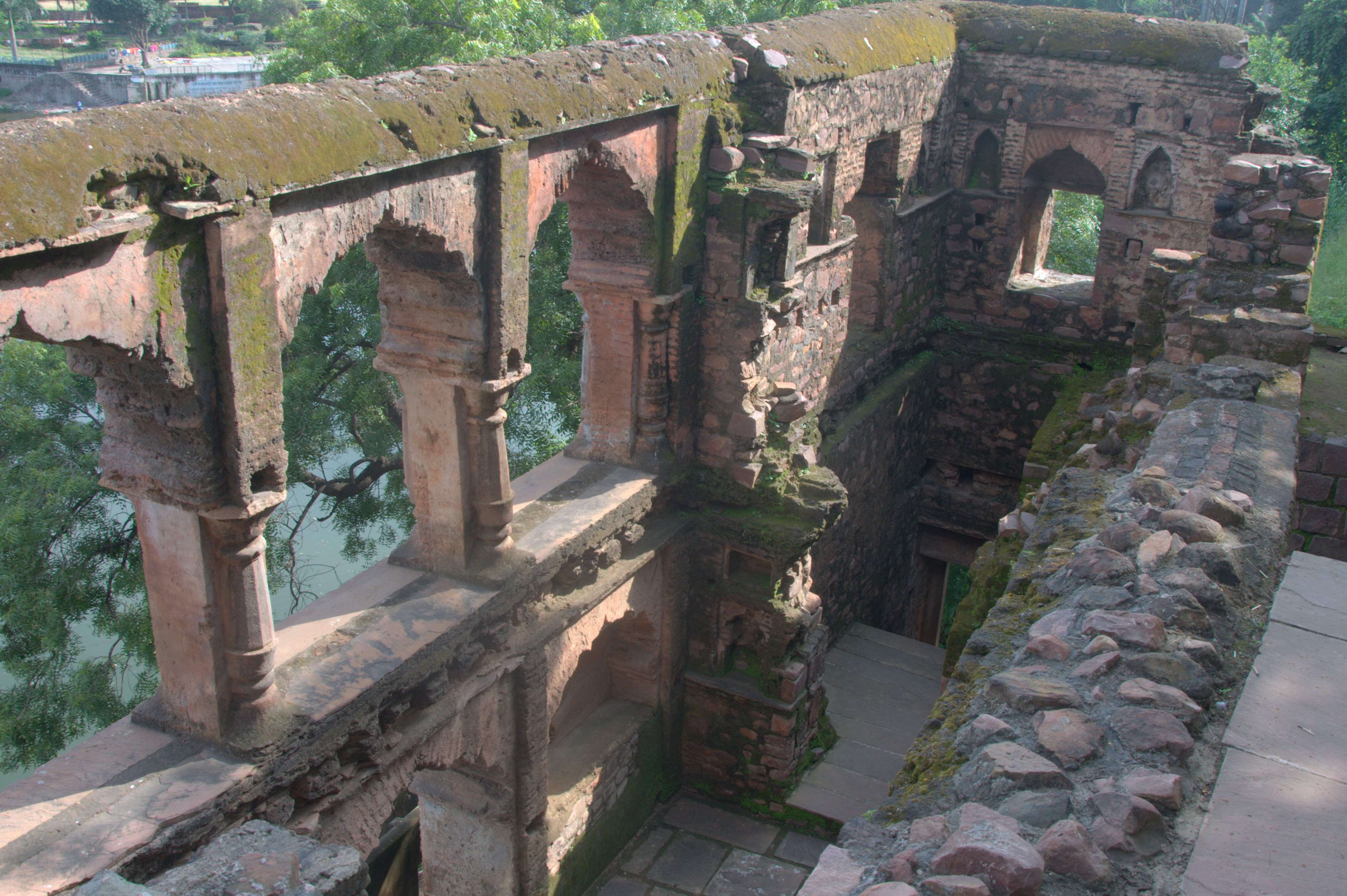 kamlapati palace bhopal